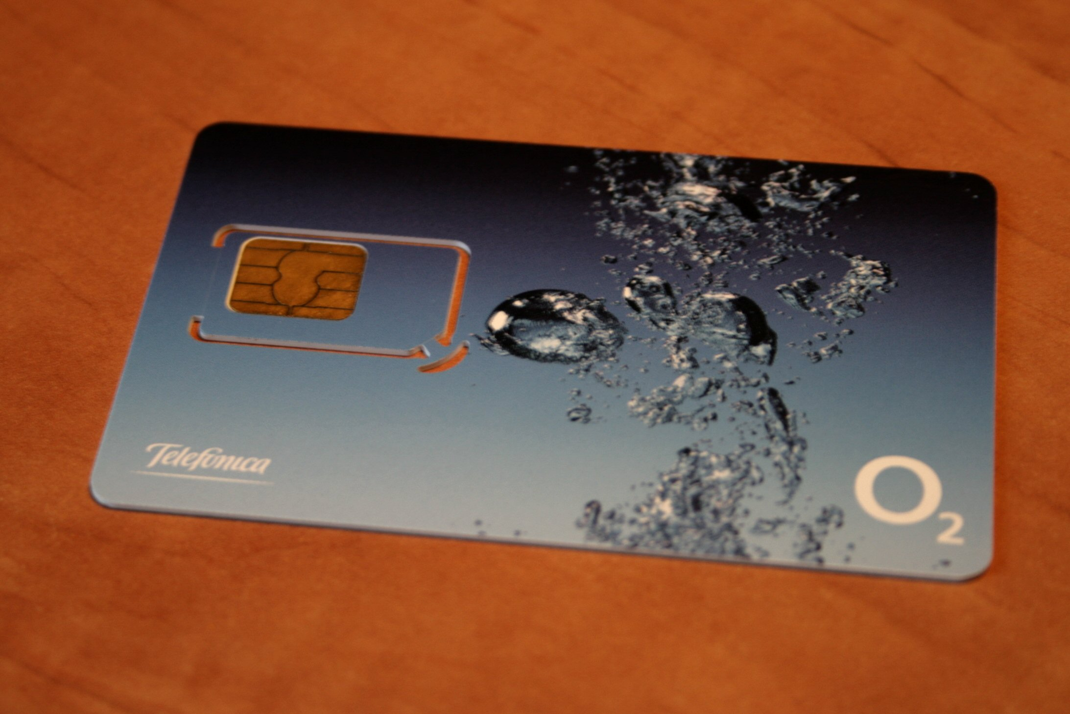 Prepaid SIM card (Telefónica O2 Slovakia)